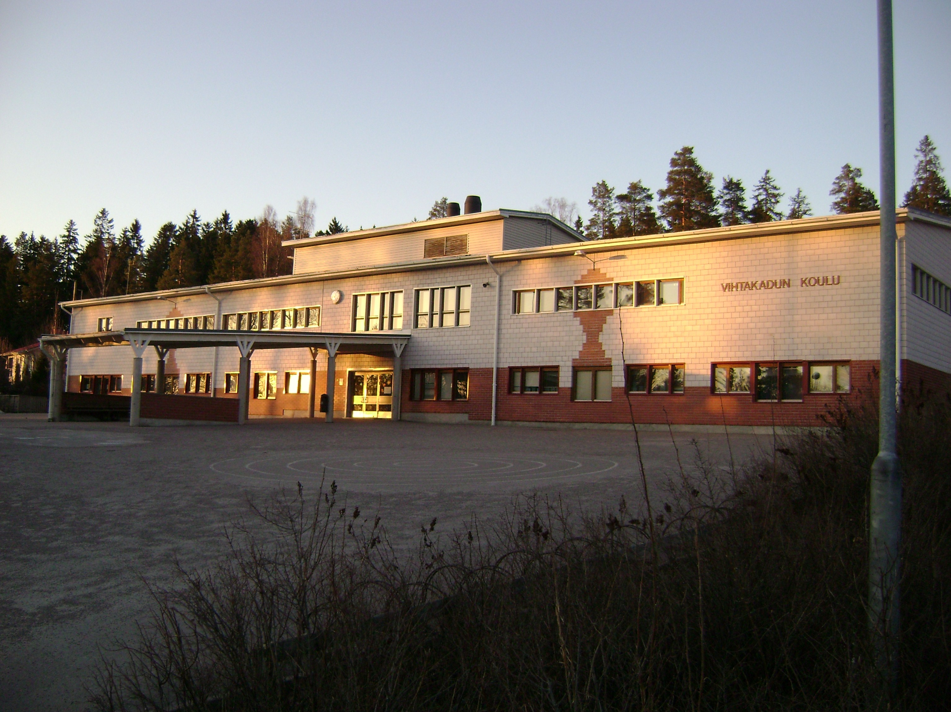 Vihtakatu School in Järvenpää, Finland.